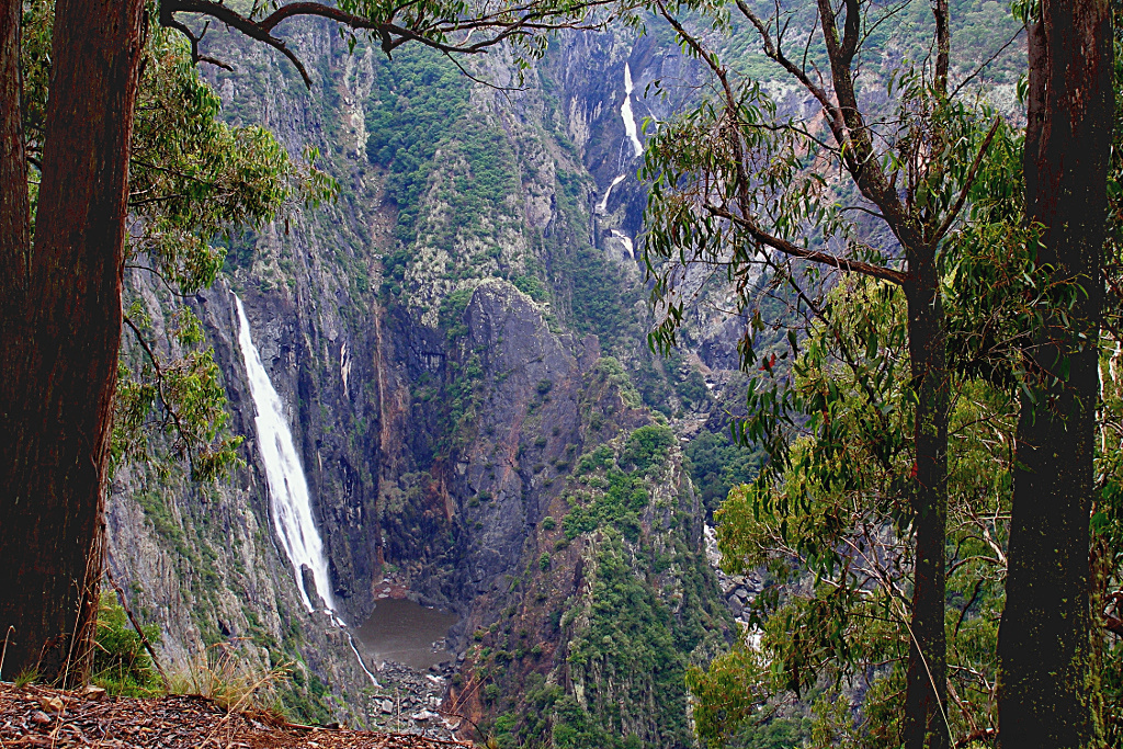 Oxley Wild Rivers National Park, New South Wales, Australia, Wollomombi Falls (left) and Chandler Falls (top)